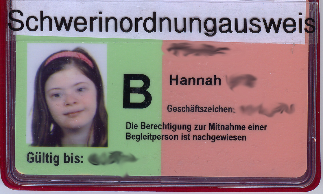 Schwer-in-Ordnung-Ausweis